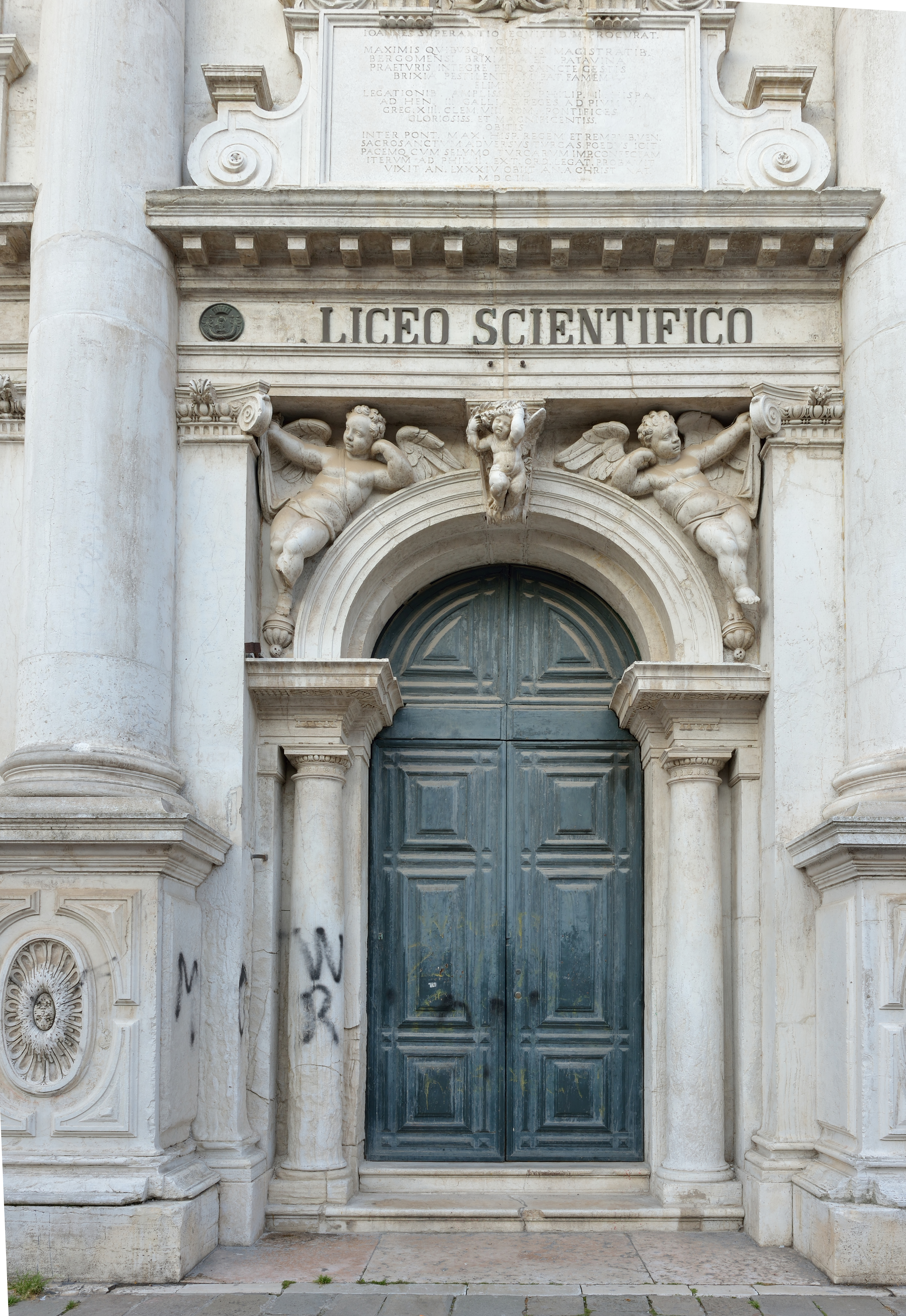 Portal of the Santa Giustina church in Venice.